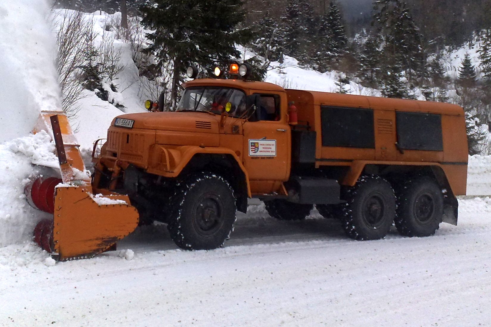 Soviet snow thrower truck DE-210 based on ZIL-131.